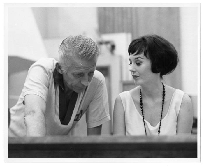 Ann Richards (singer) with Stan Kenton. Recording session at Capitol Studios, Hollywood CA. July 21, 1960